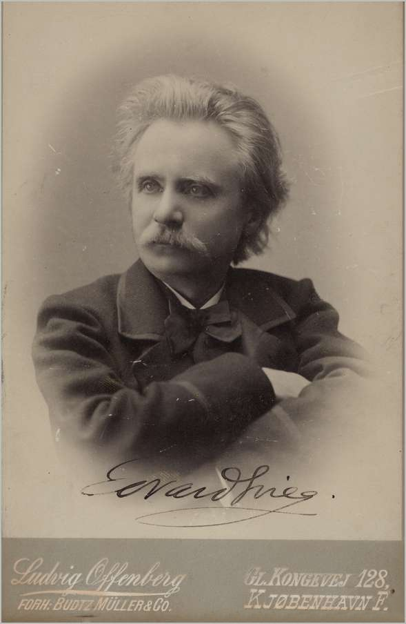 Portrait of Edvard Grieg, arms crossed, looking slightly left. Carte de Visite with signature.